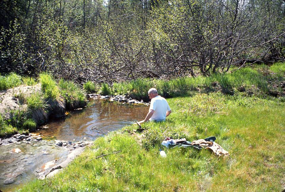 Kanuti Hot Springs ACEC, Alaska Kanuti Hot Springs is a small (40 acres) Area of Critical Environmental Concern on BLM public land 8-miles off the Dalton Highway. Reaching as hot as 150 degrees Farenheit, the hot springs sometimes may be too hot for comfort and visitors who want to soak in the springs move rock to strategic locations in order to pool cooler water from a stream flowing into the hot spring. The Kanuti Hot Springs earned ACEC status for the value of the hot spring system. Unlike most hot springs in the Interior, it has not been commercially developed. Photo: Man soaking his feet in the Kanuti Hot Springs by Tim Craig, BLM